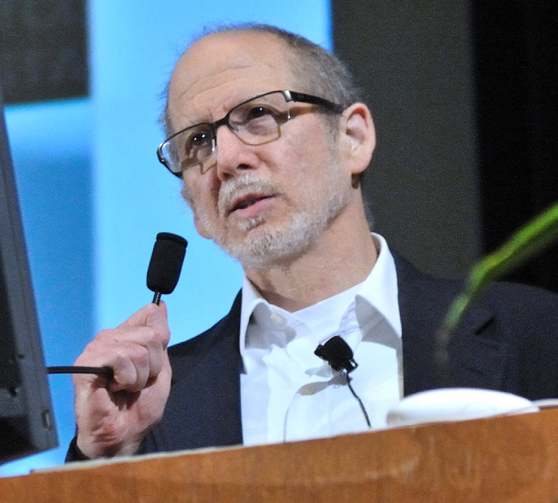 Dr. Bert Vogelstein an HHMI Investigator at the Johns Hopkins School of Medicine, addresses an audience at the 10th annual Jeffrey M. Trent Lecture in Cancer Research.